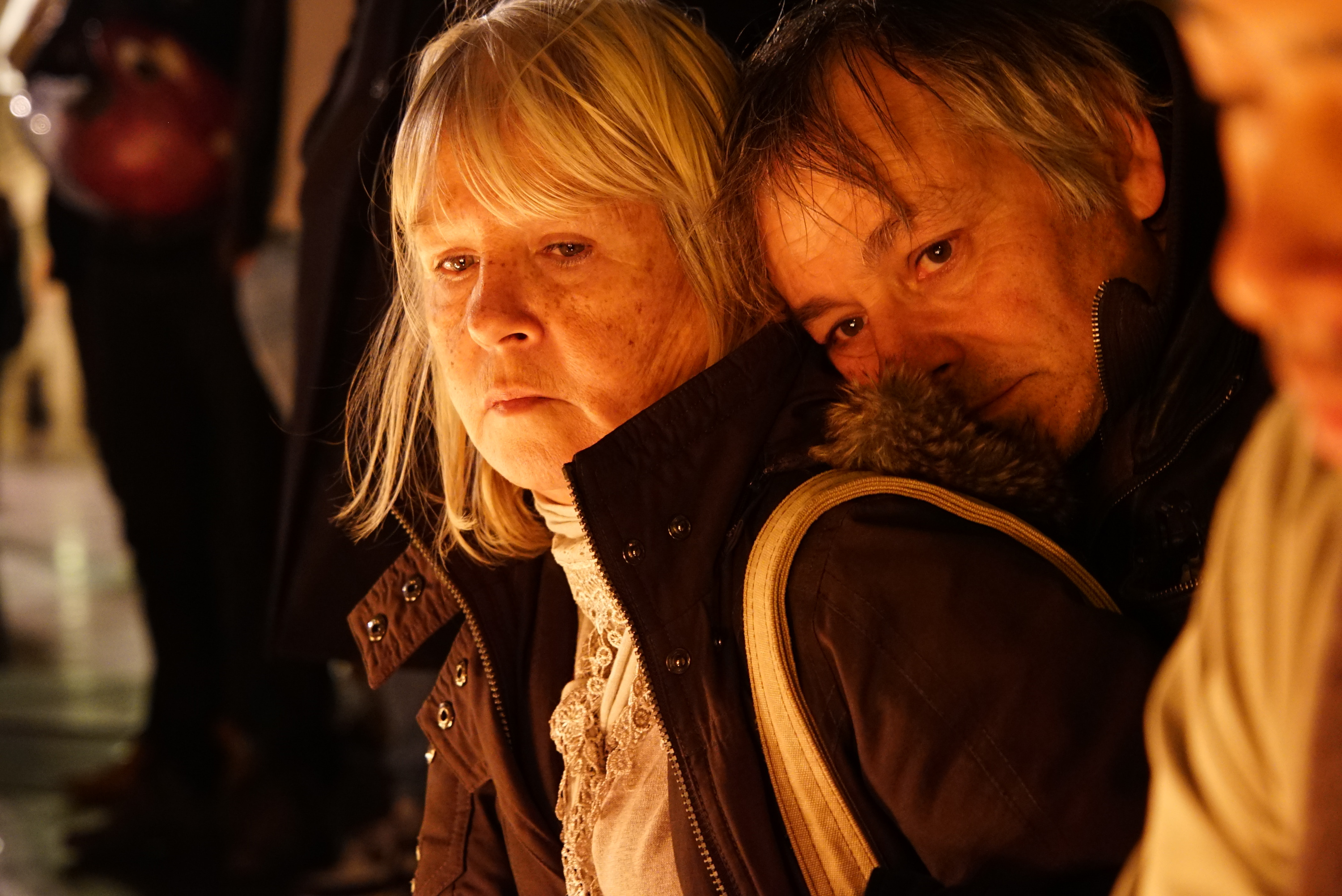 Mourning people captured during civil service in remembrance of November 2015 Paris attacks victims. Wesern Europe, France, Paris, November 14, 2015.